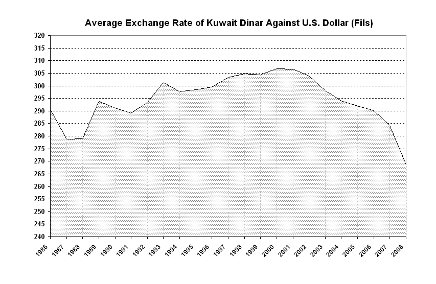 Average Exchange Rate of Kuwait Dinar Against U.S. Dollar (Fils) Based On Central Bank Of Kuwait Website